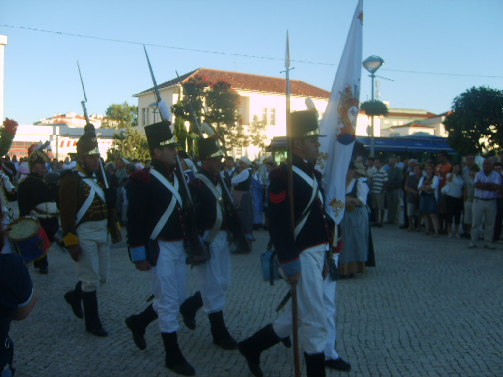 Batalha do Vimeiro (3), Lourinhã